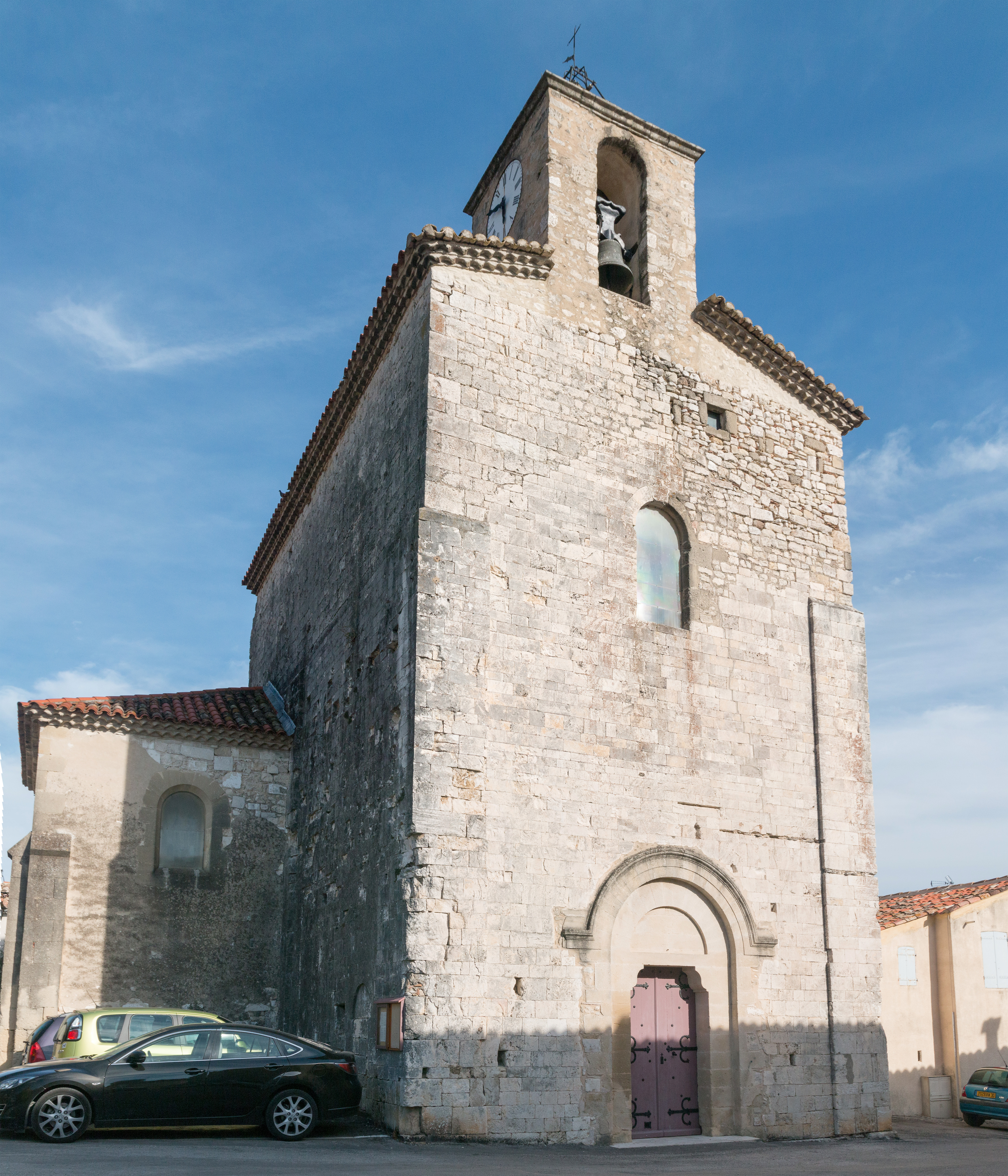 Church.